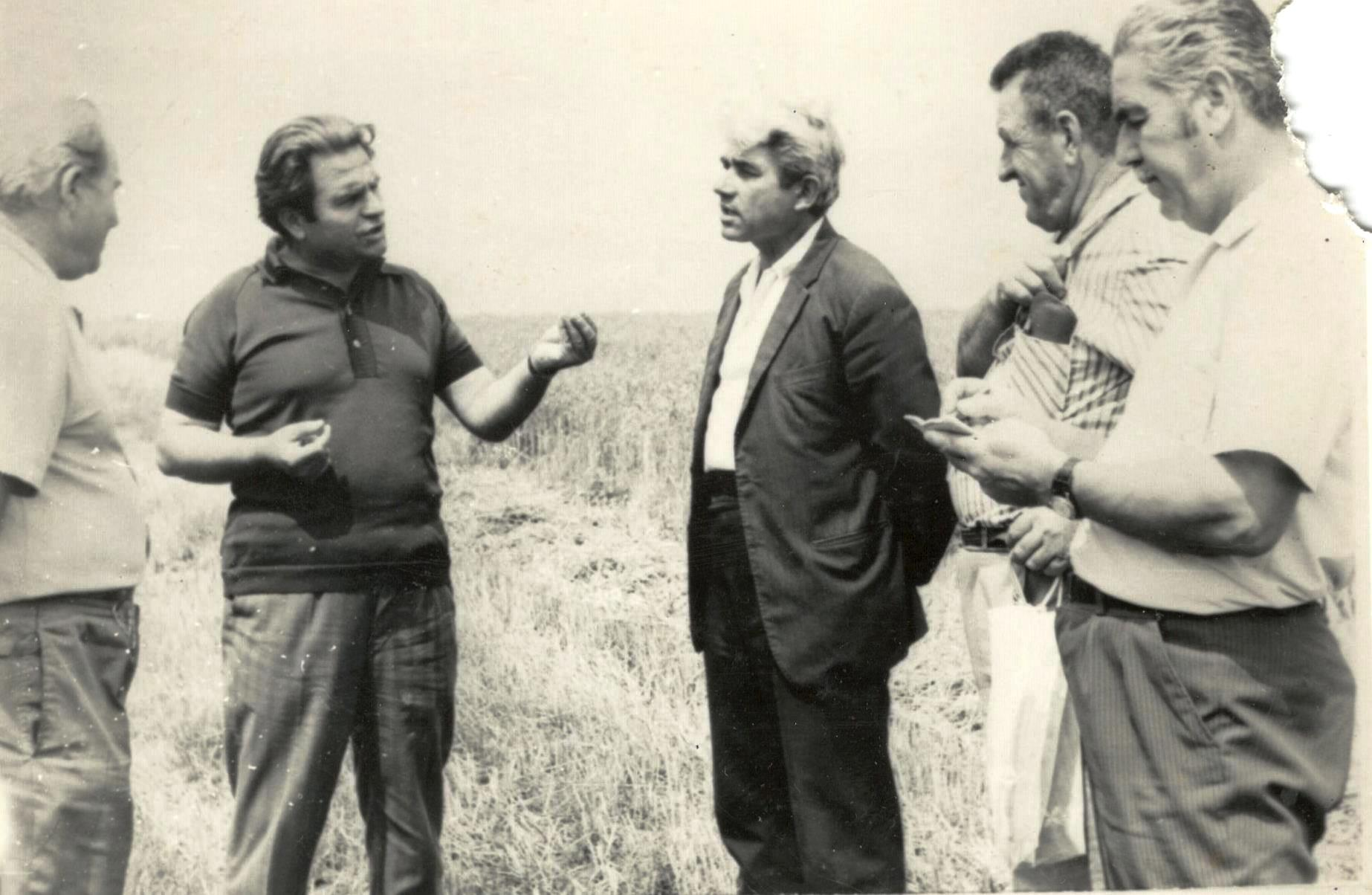 Meeting the chairman of the Agrarian Industrial Complex Dimitar Kostov at harvest time.